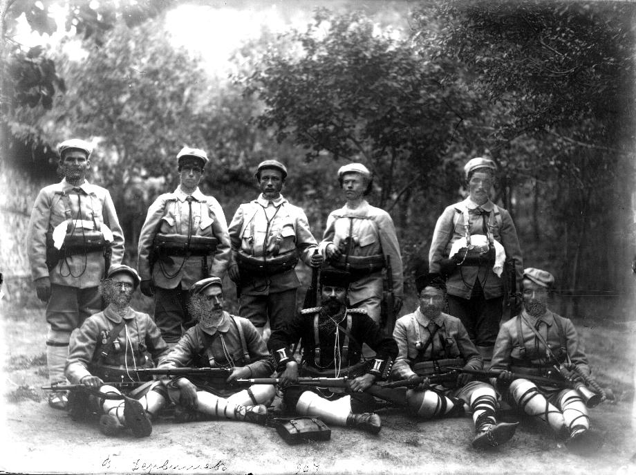 Cheta of M Dervishev, bulgarian revolutionary from IMARO